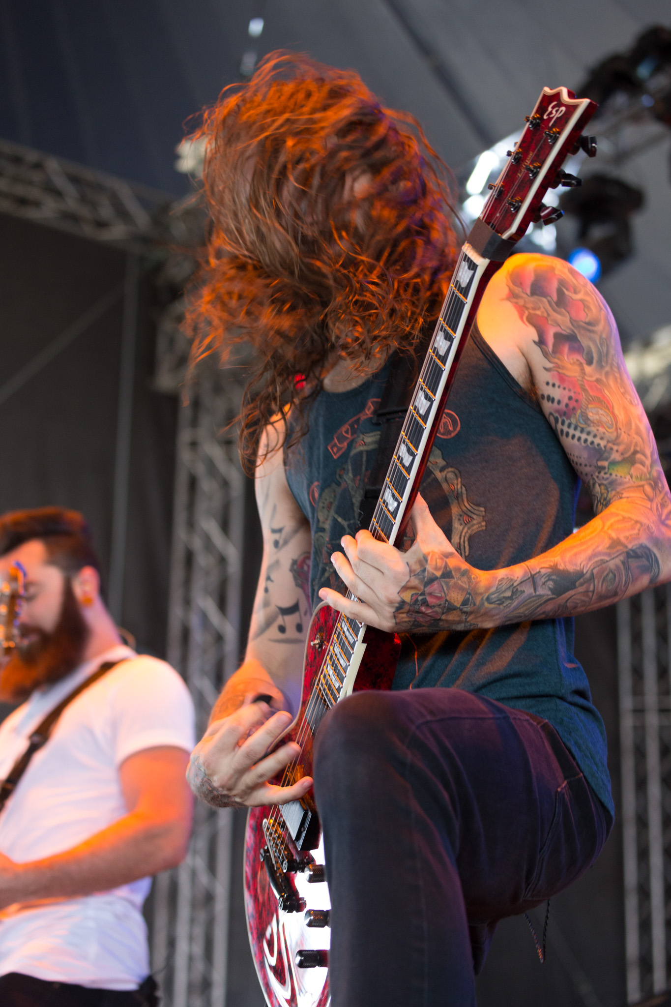 Memphis May Fire performing at the With Full Force Festival, July 2014